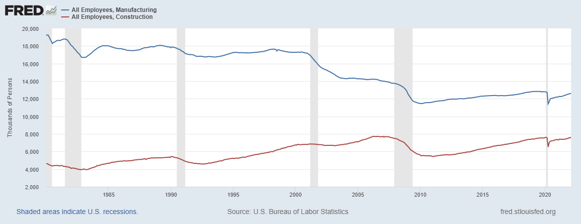 Number of persons working in U.S. Manufacturing and Construction